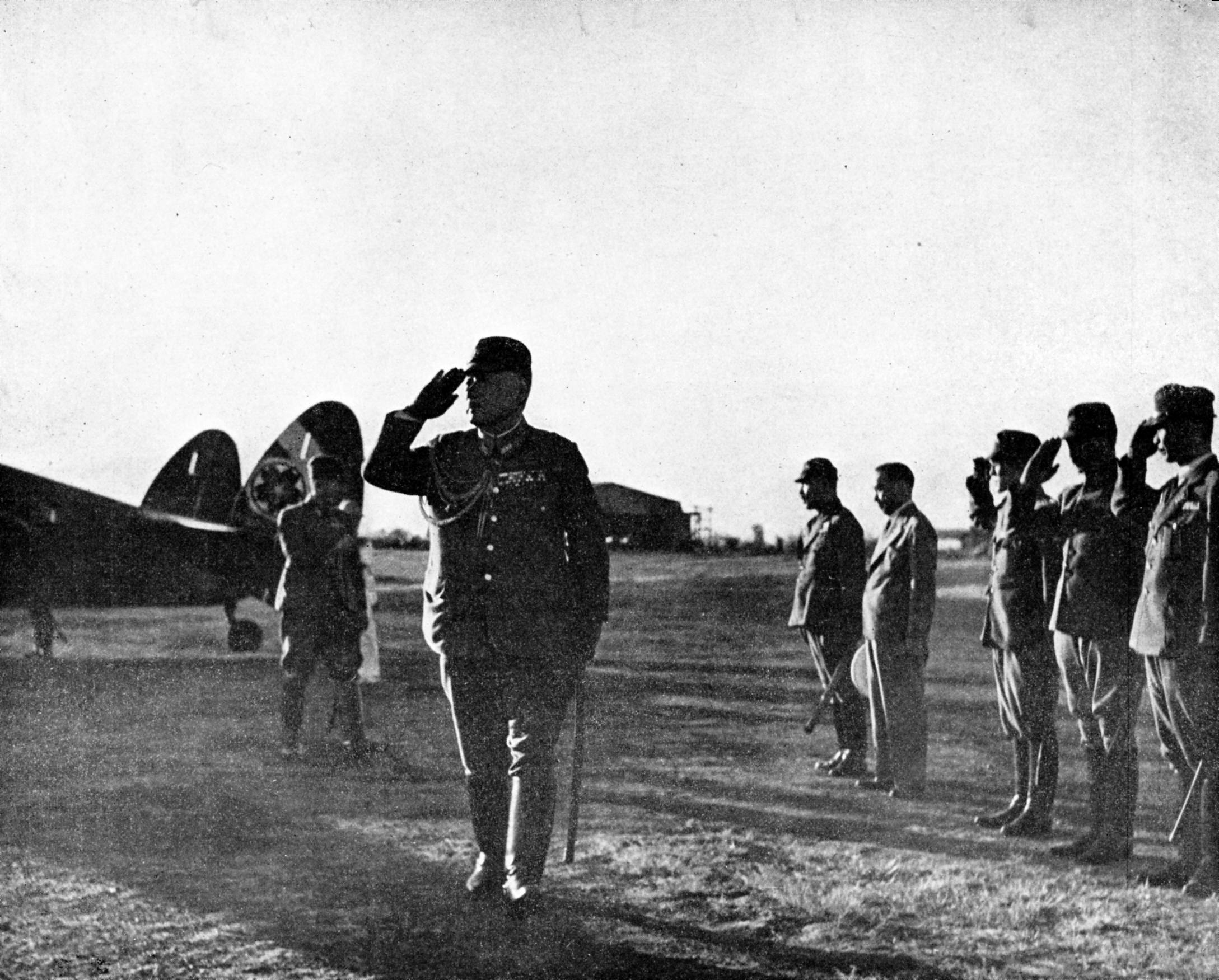 杉山元 or Sugiyama Hajime, a tactician of Imperial Japanese Army in days of World War II